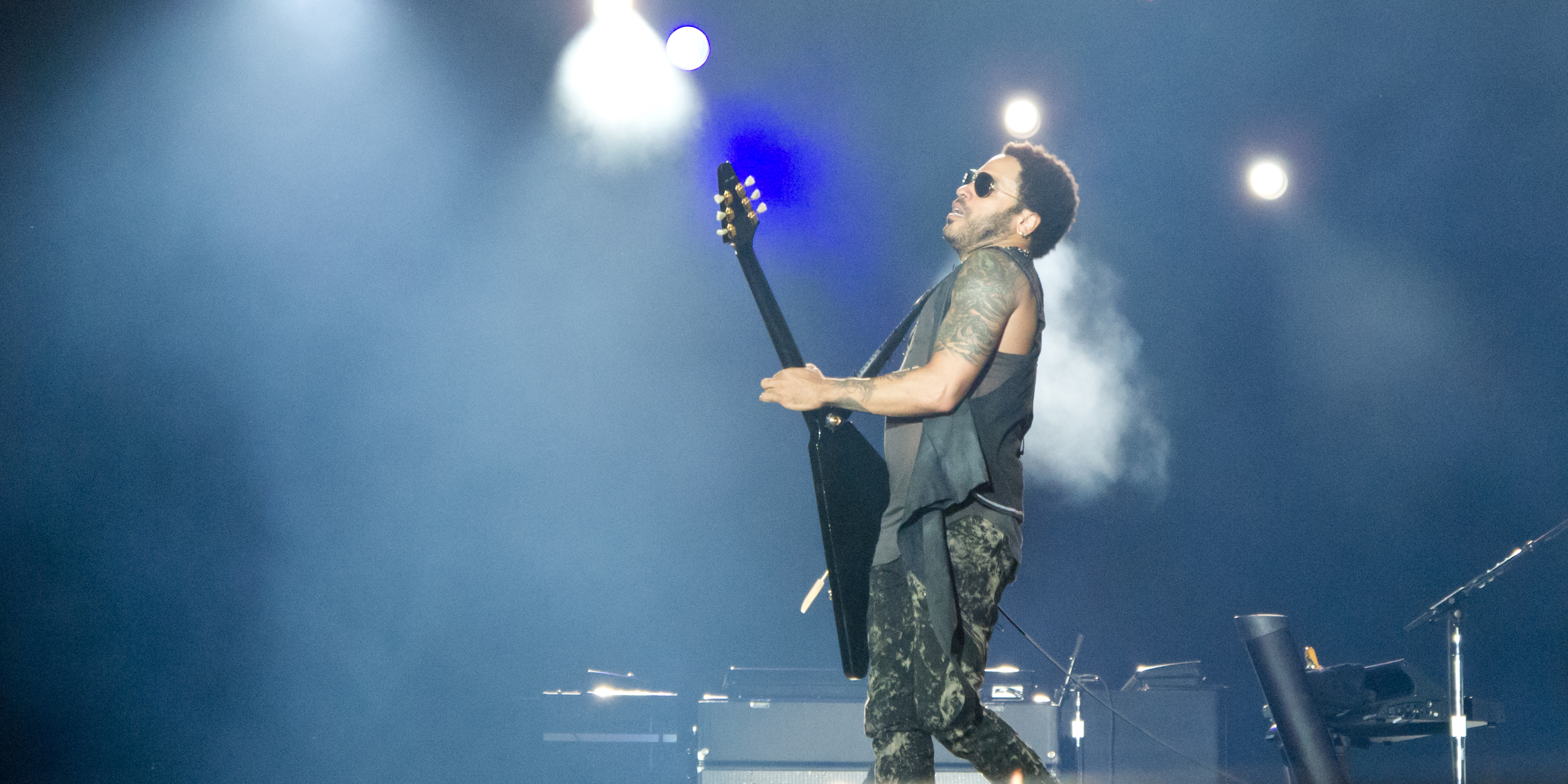 Lenny Kravitz live in Rock in Rio Madrid 2012.